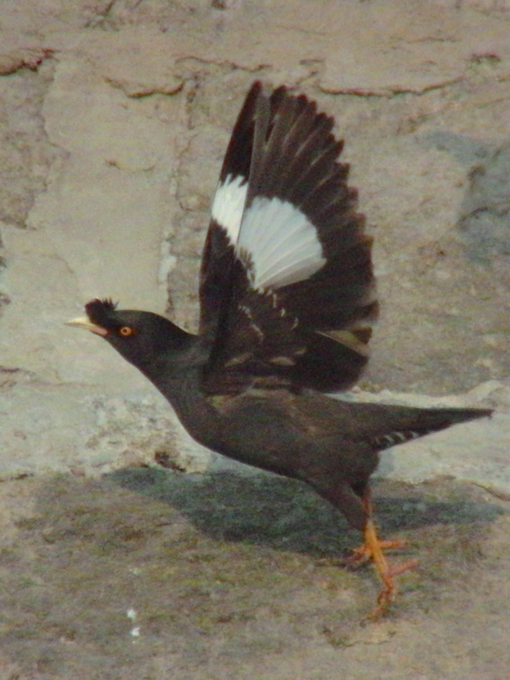 Saw near my home .